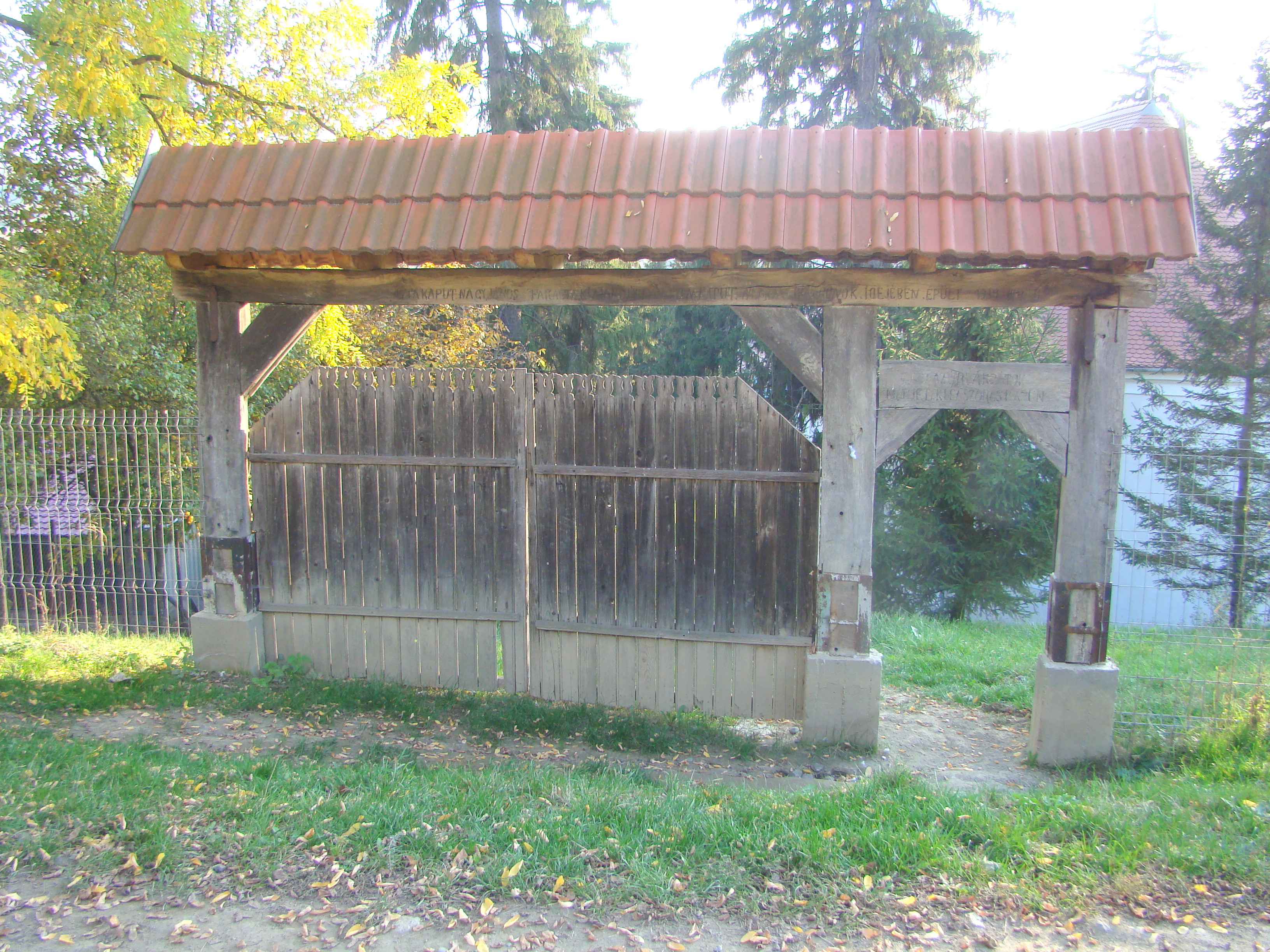 Reformed church in Mădăraș, Mureș County, Romania